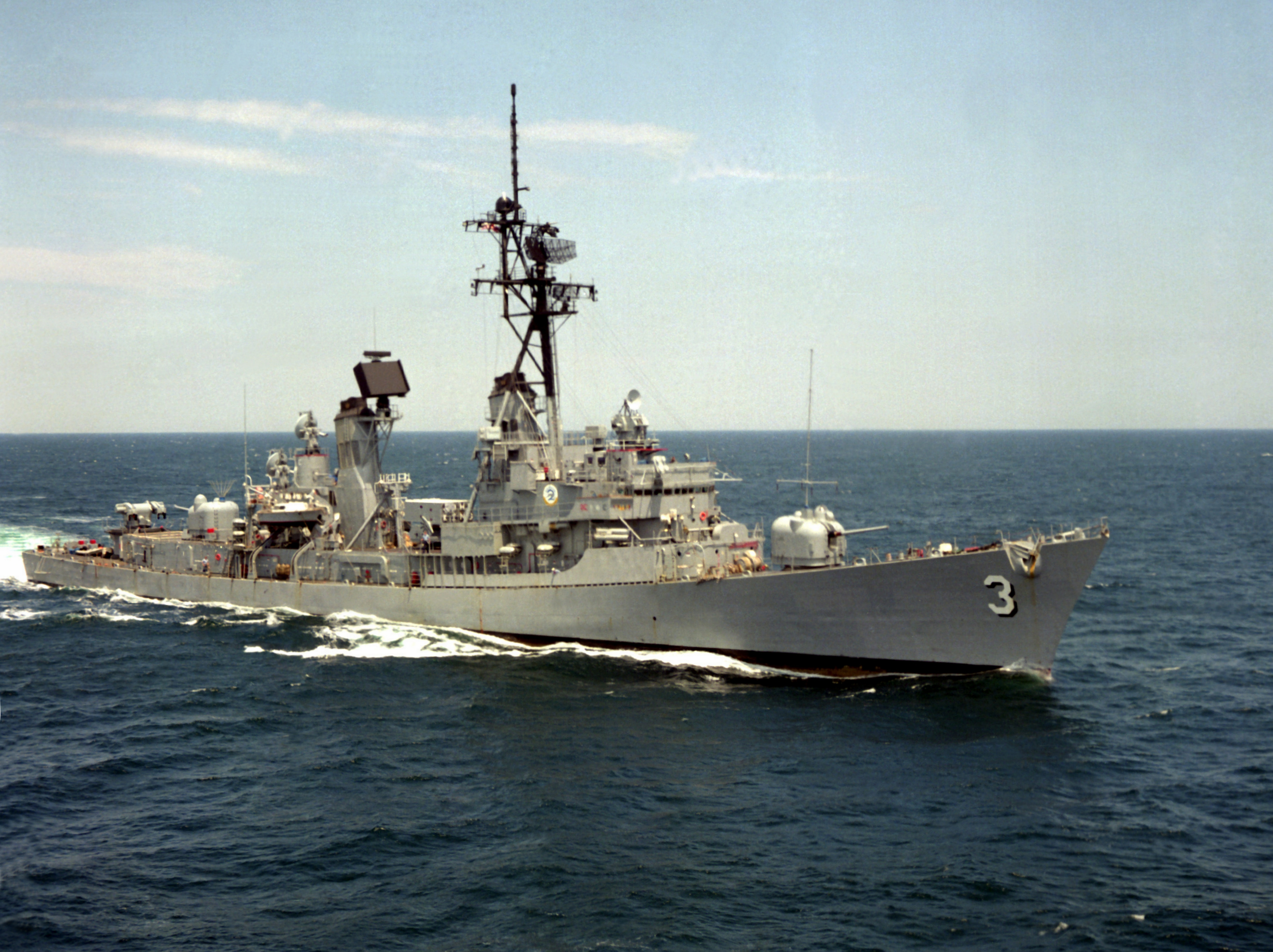 The U.S. Navy guided missile destroyer USS John King (DDG-3) underway in the Atlantic Ocean off the coast of Norfolk, Virginia (USA), in 1983.